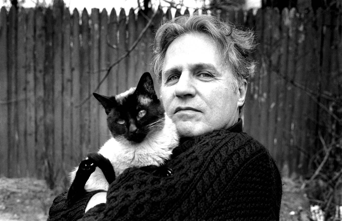 Gerard Malanga & Archie (2005). Photo by Asako Kitaori